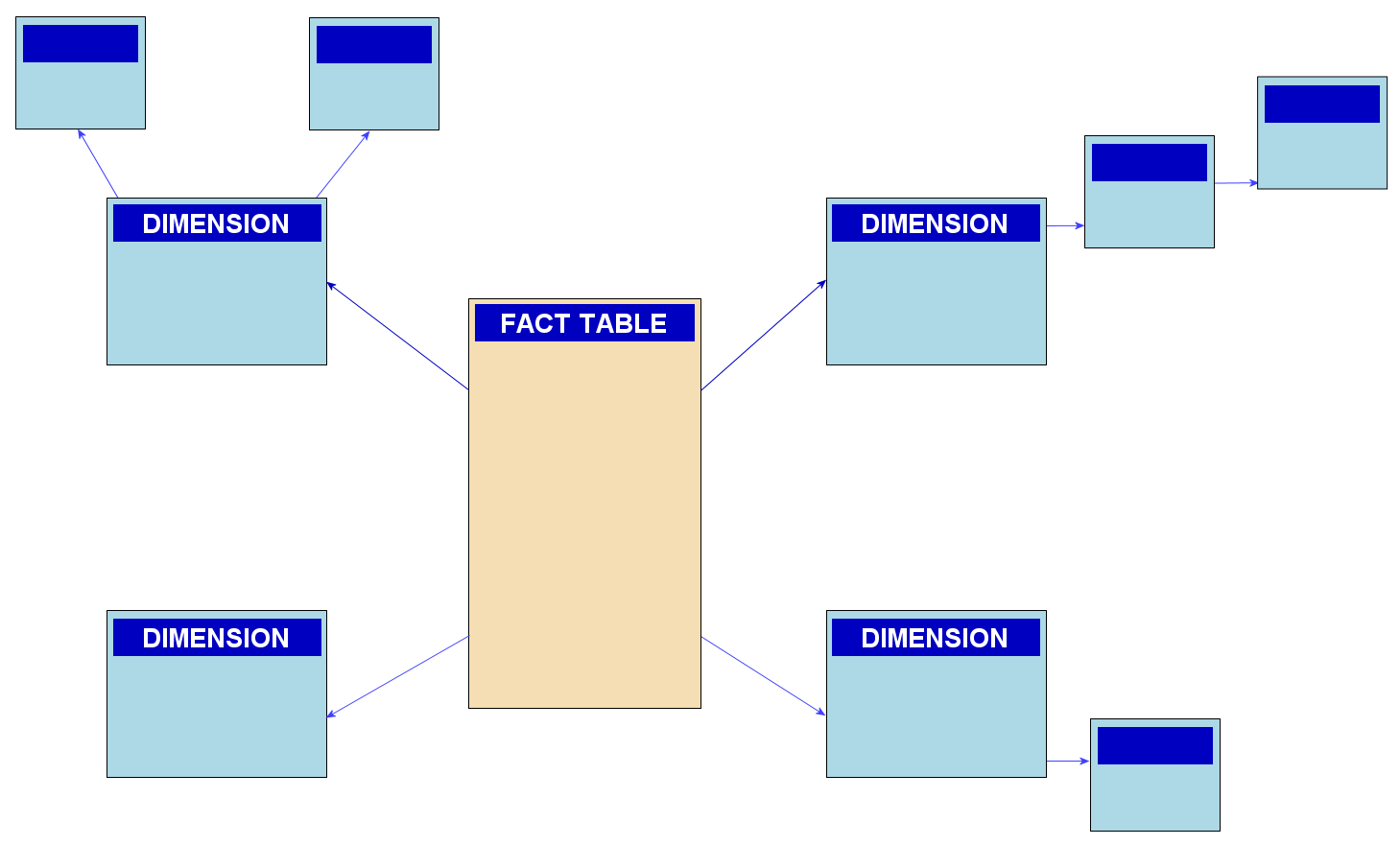 PNG image of a snowflake schema